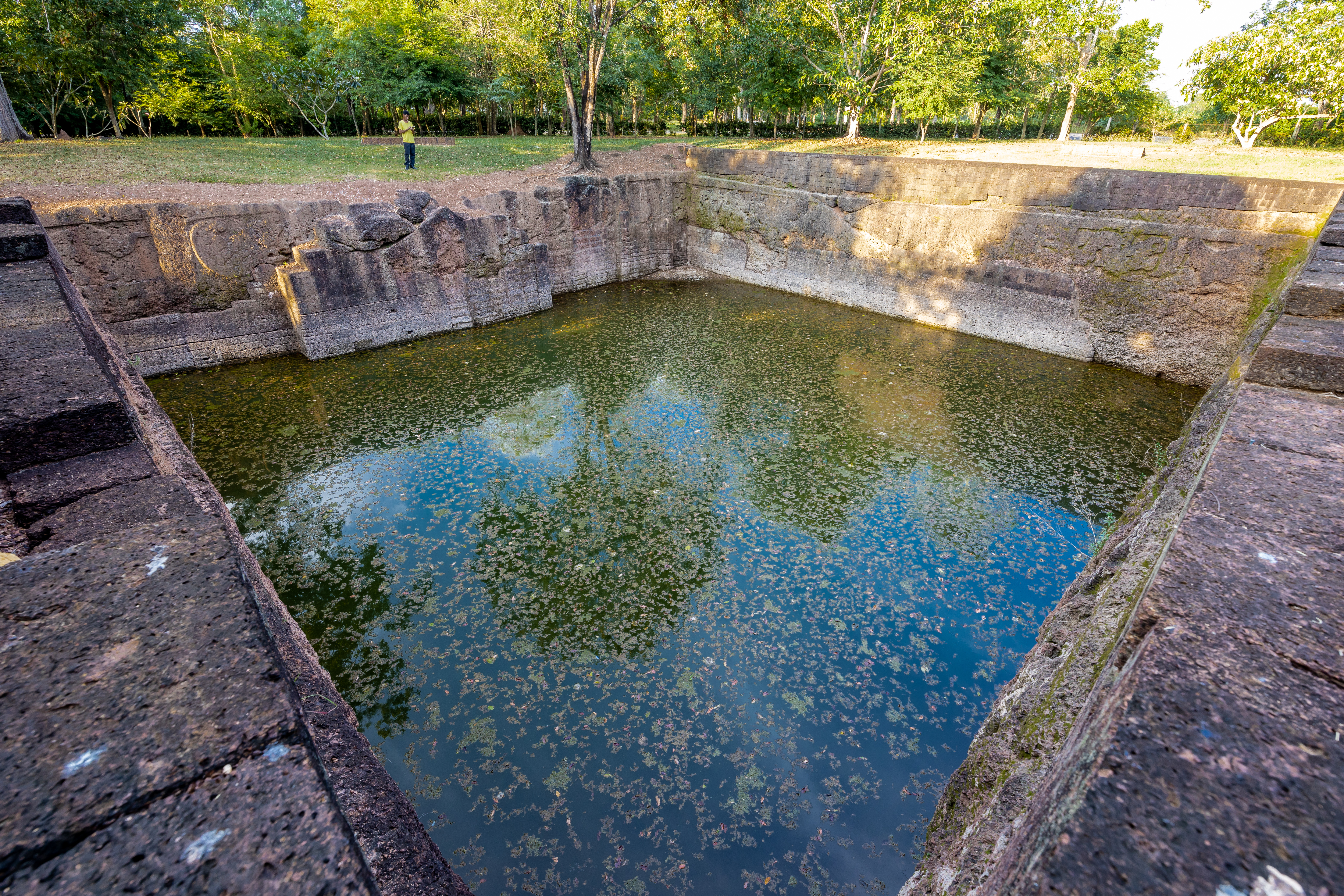 Sa Kaeo in Si Mahosot Ancient Town, Prachin Buri.